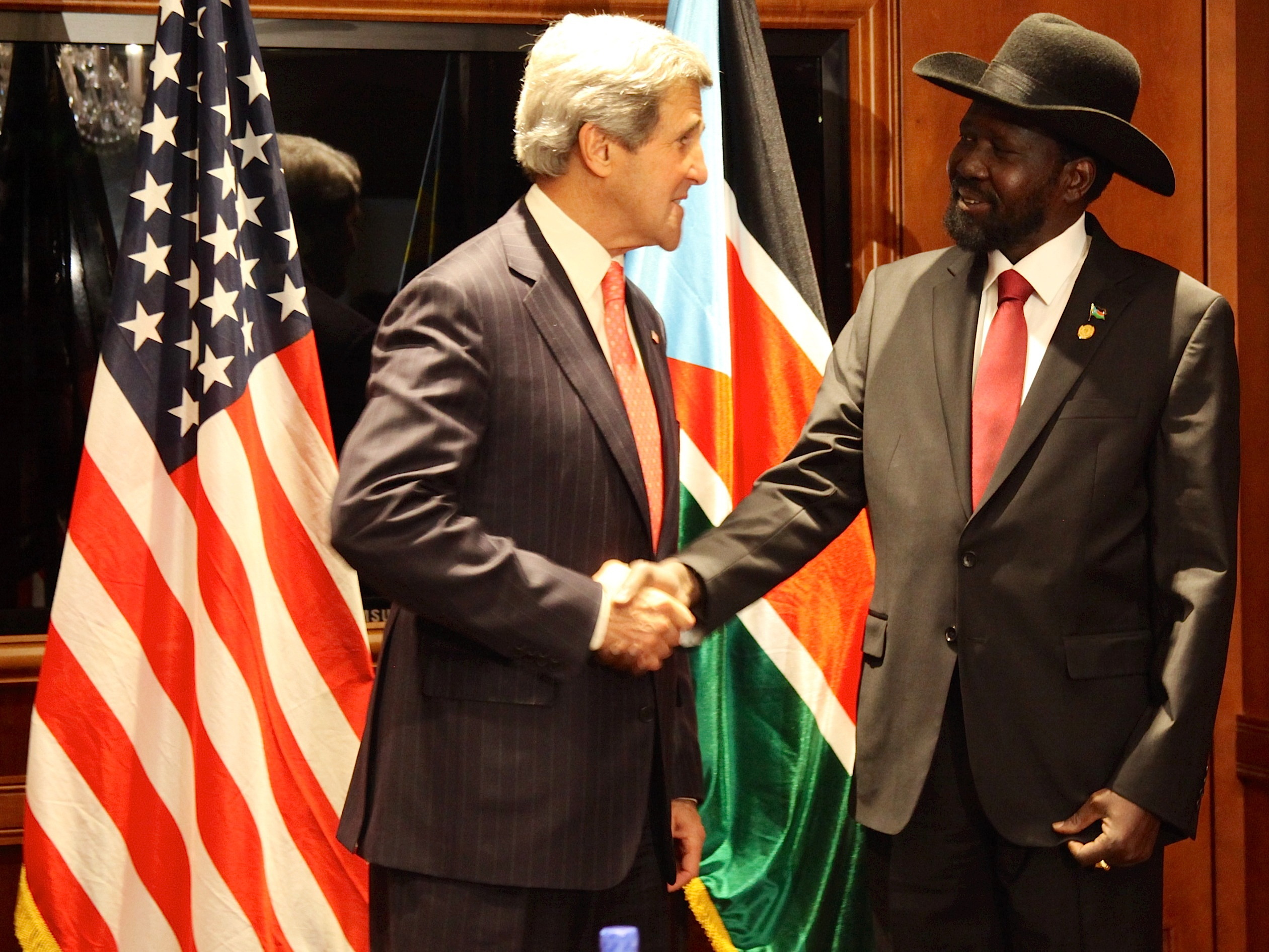 U.S. Secretary of State John Kerry meets with South Sudan President Salva Kiir before the conclusion of the 50th anniversary African Union Summit in Addis Ababa, Ethiopia, on May 26, 2013. [State Department photo/ Public Domain]